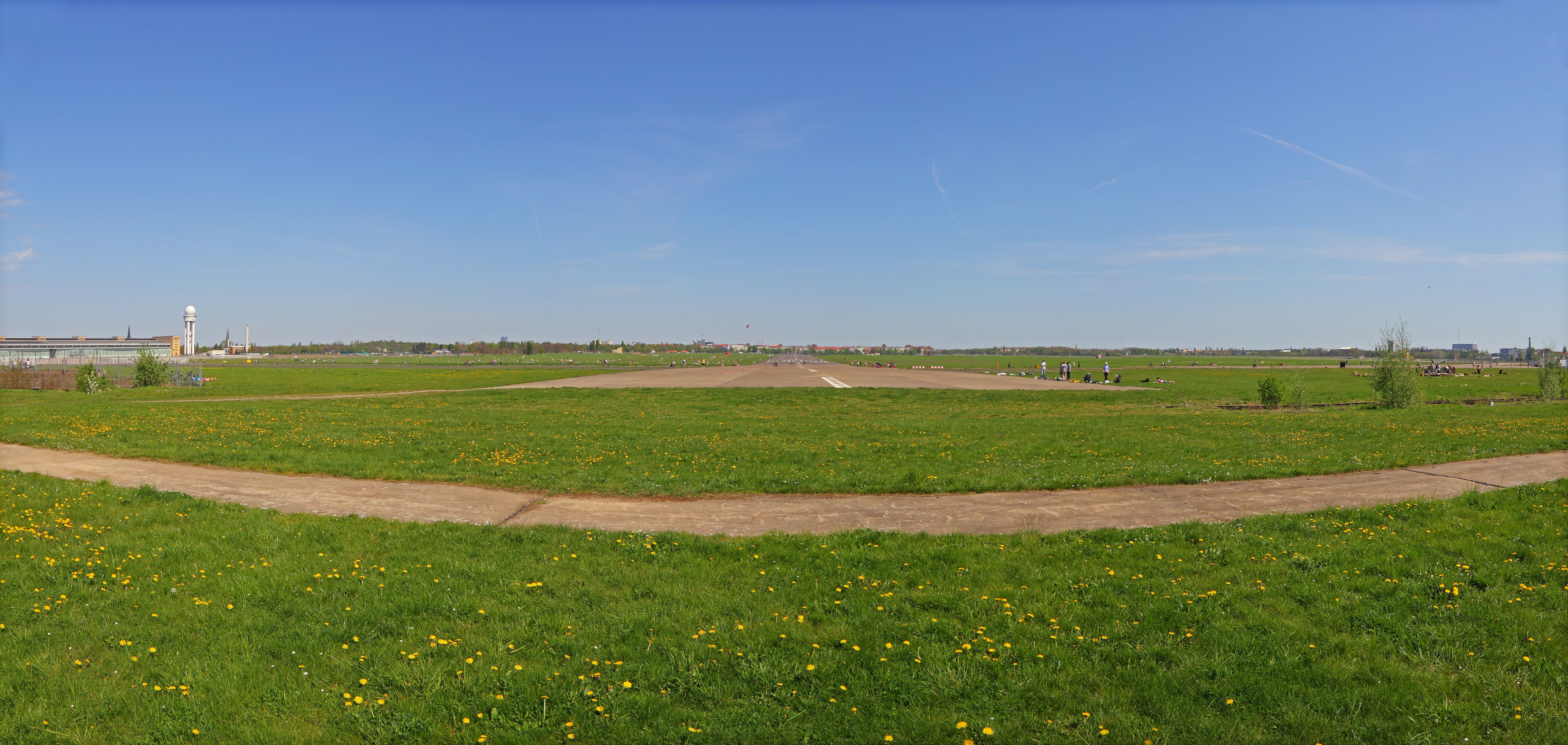 Berlin-Tempelhof park, pano in april 2012